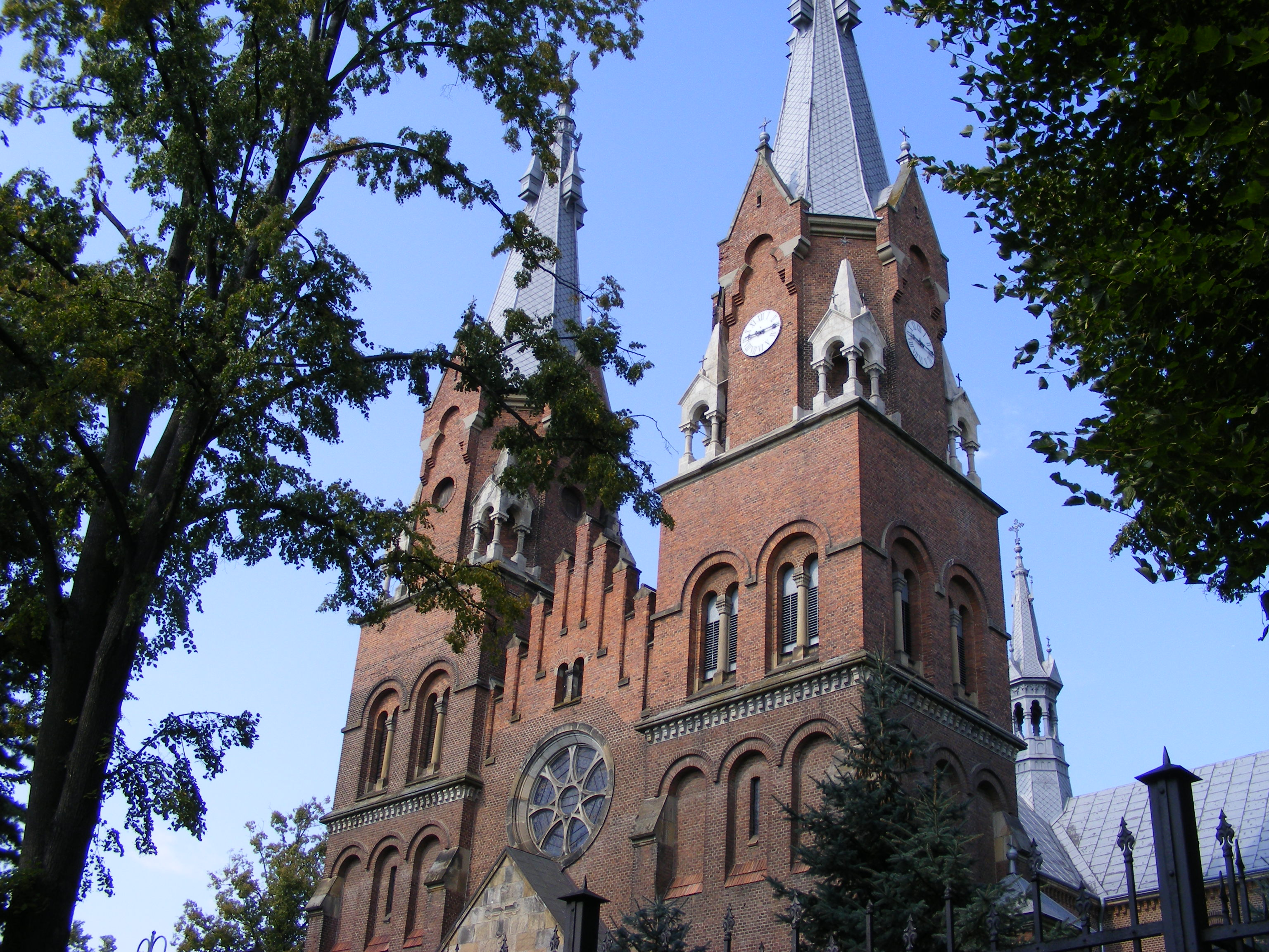 Church in Jedlicze